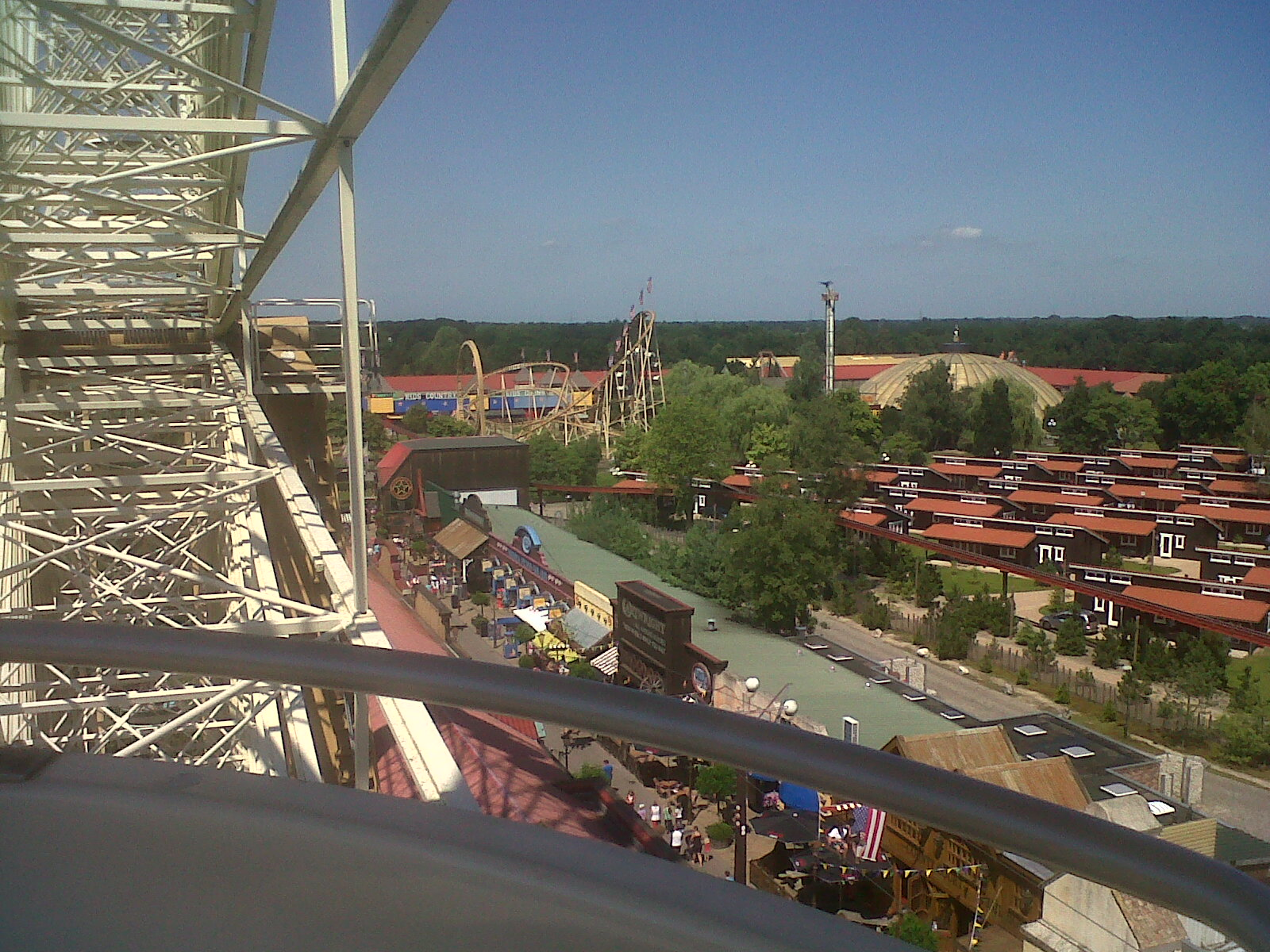 The left part of Themepark & Resort Slagharen from the Big Wheel